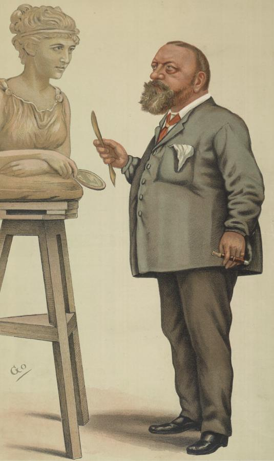 Caricature of Count Gleichen Born 1834. Shown sculpting a bust. Coloured. Overall size c. 8x14 ins.